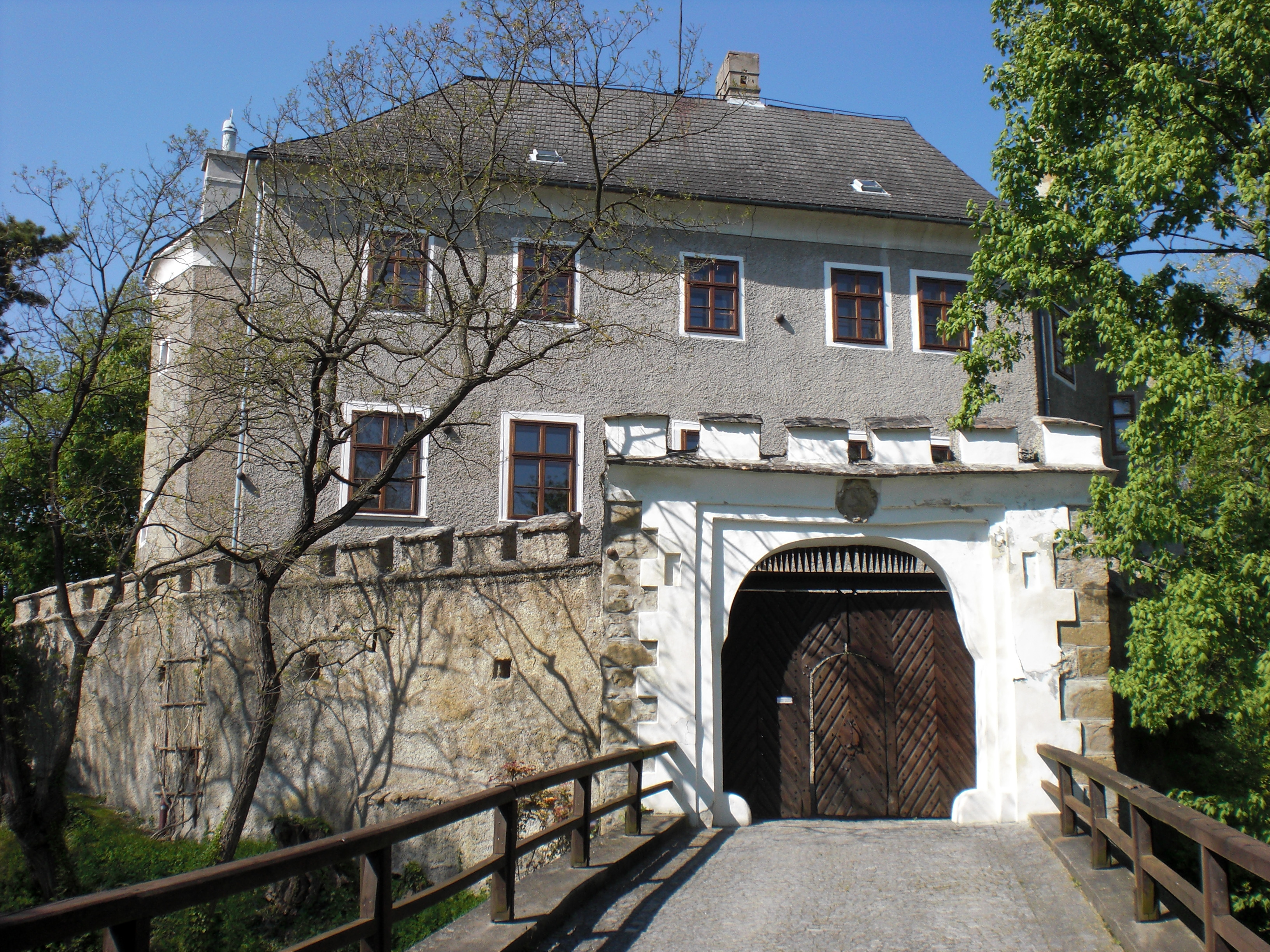 Castle Sachsengang, Oberhausen, Groß-Enzersdorf, :Lower Austria